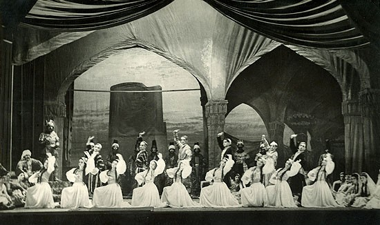 Maiden tower ballet of Afrasiyab Badalbeyli - first ballet in East.